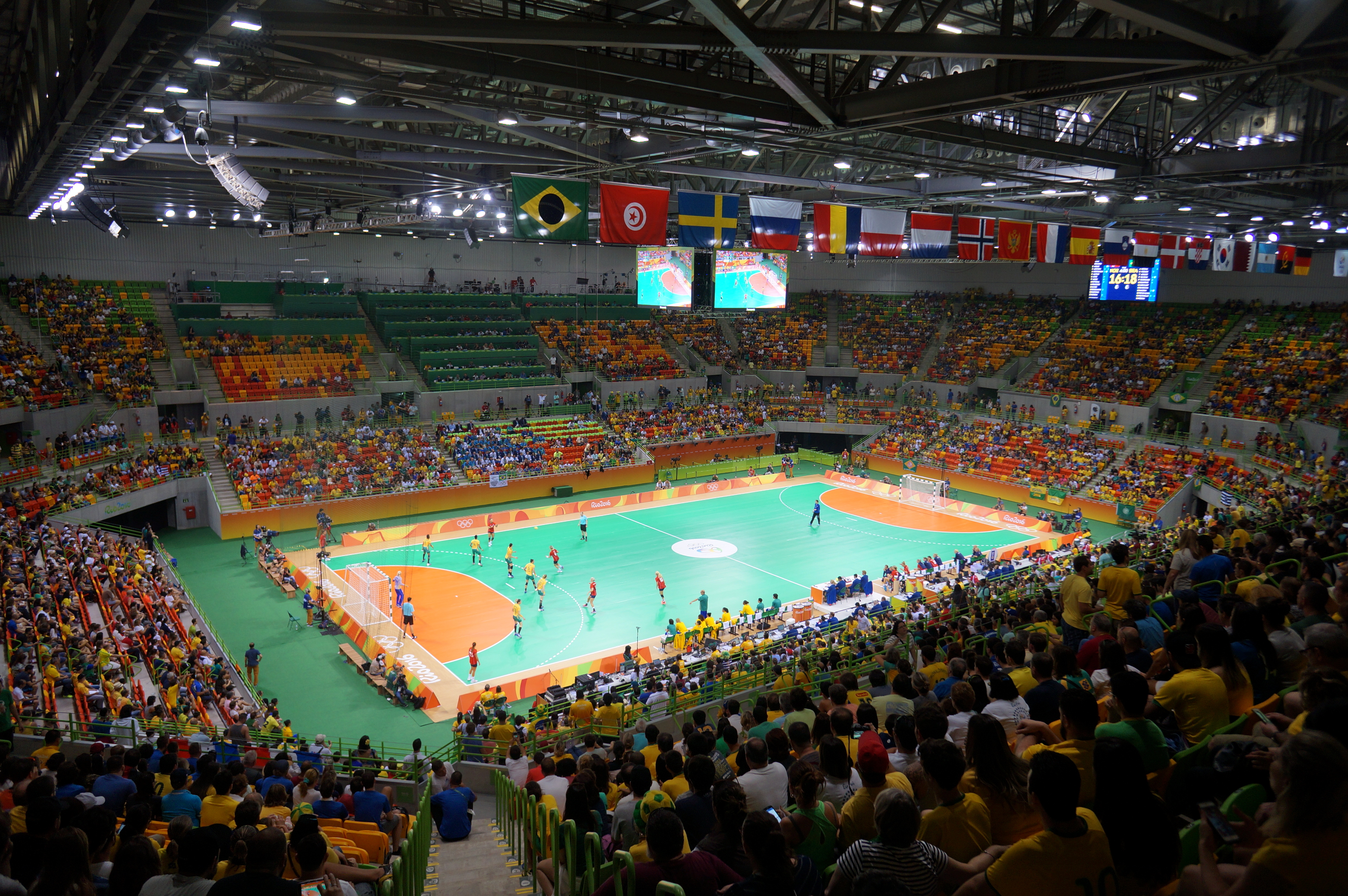 Handball Rio2016 - Norway 28 vs 31 Brazil